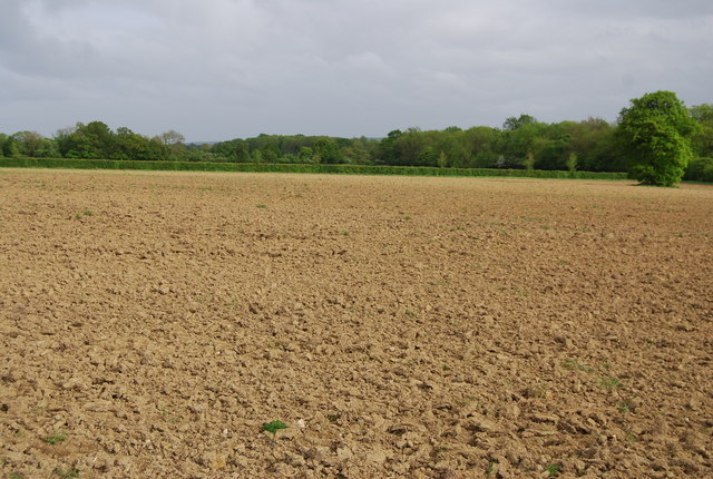 Fallow field by Coldharbour Lane